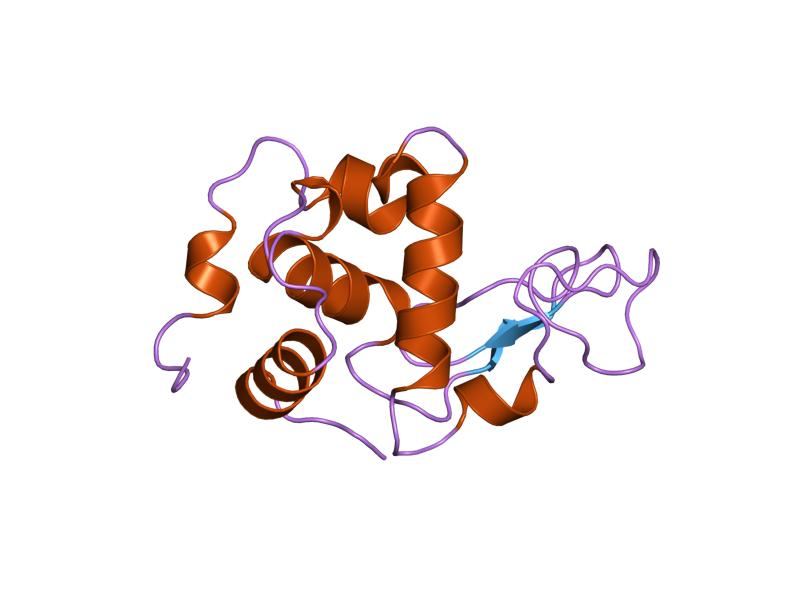 Cartoon representation of the molecular structure of protein registered with 1dkj code.